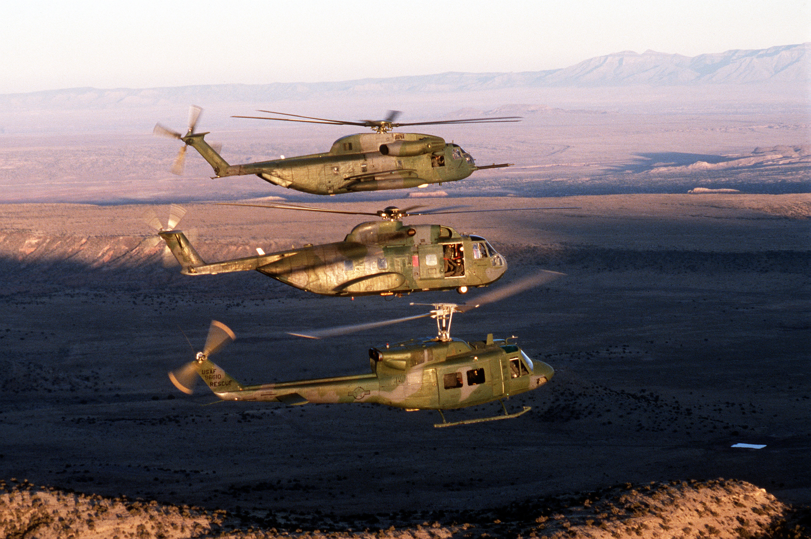 A trio of U.S. Air Force rescue helicopters in 1988 (front to back): a Bell HH-1N Huey, a Sikorsky HH-3E Jolly Green Giant, and a Sikorsky HH-53C Super Jolly Green Giant fly in formation near the 531st Field Training Detachment's helicopter maintenance school at Kirtland Air Force Base, New Mexico (USA).